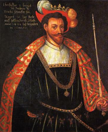 questionable as a real portrait of Christopher